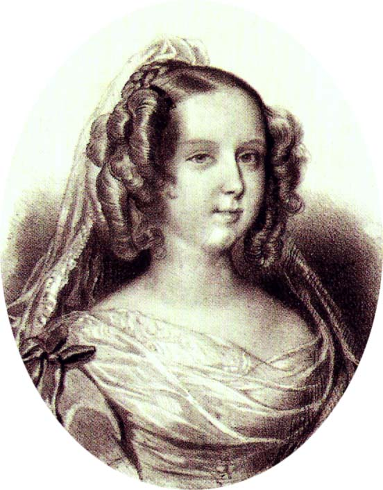 Queen Maria II da Gloria of Portugal